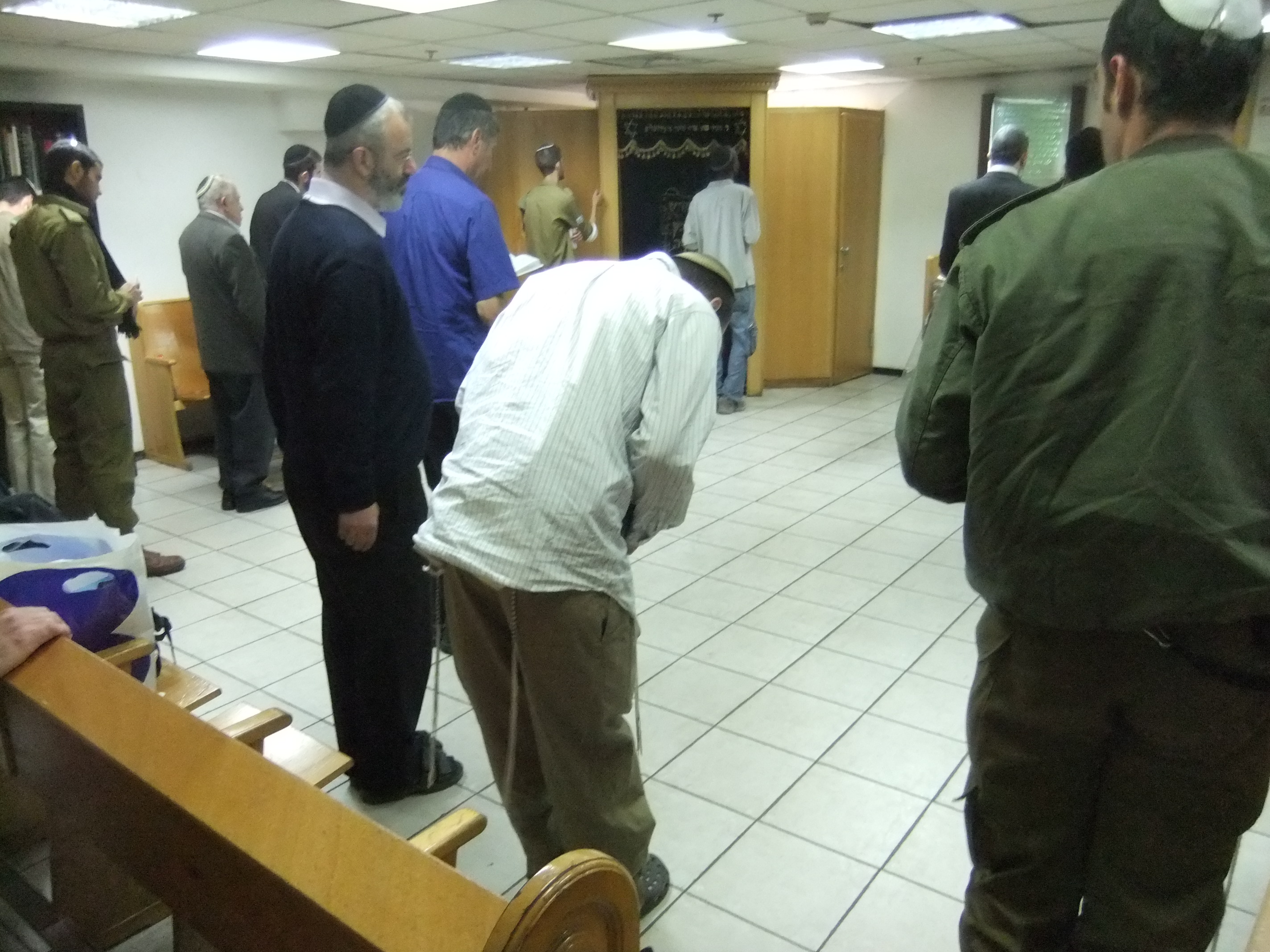 Synagogue in Jerusalem central bus station